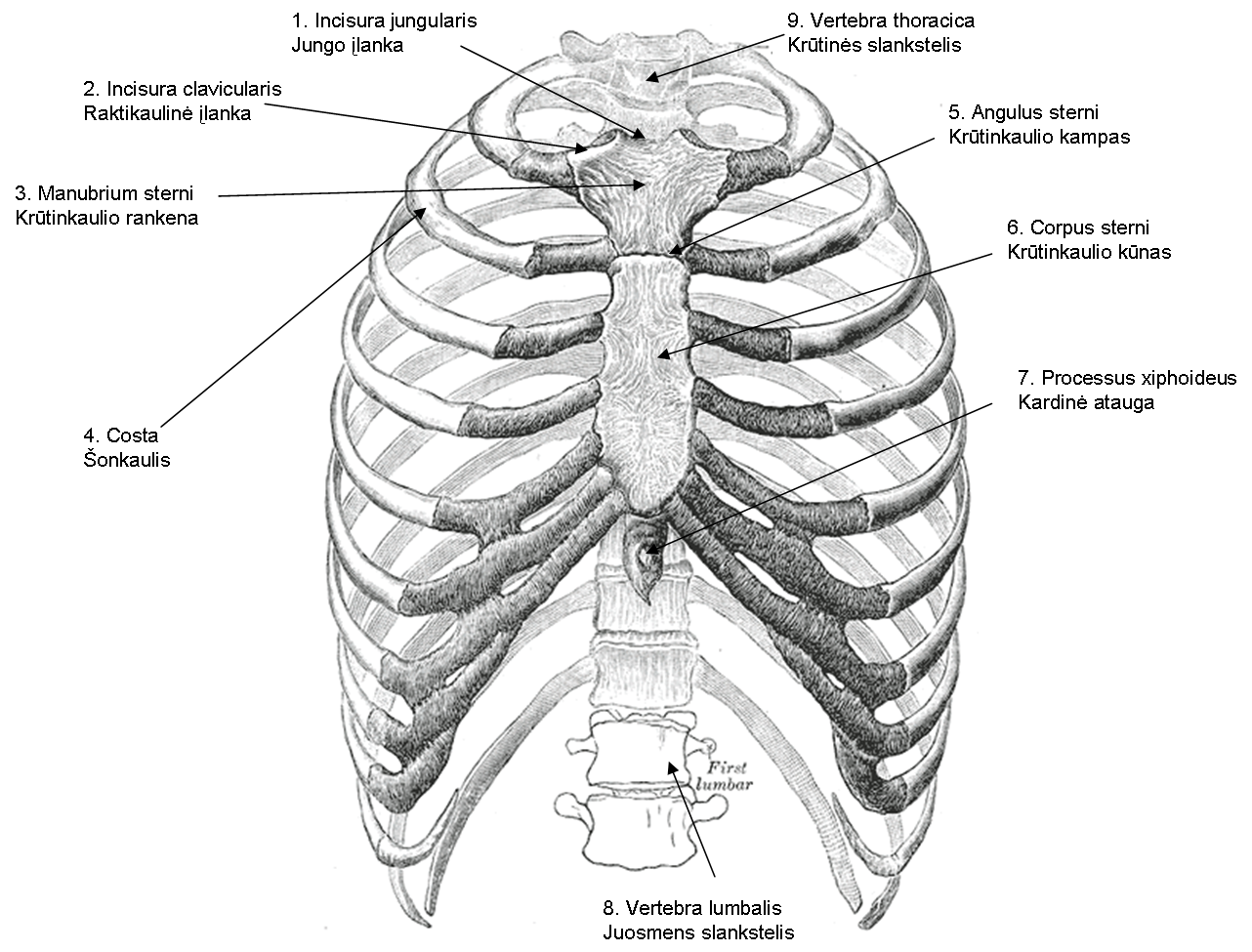 The thorax from in front. (Spalteholz.)